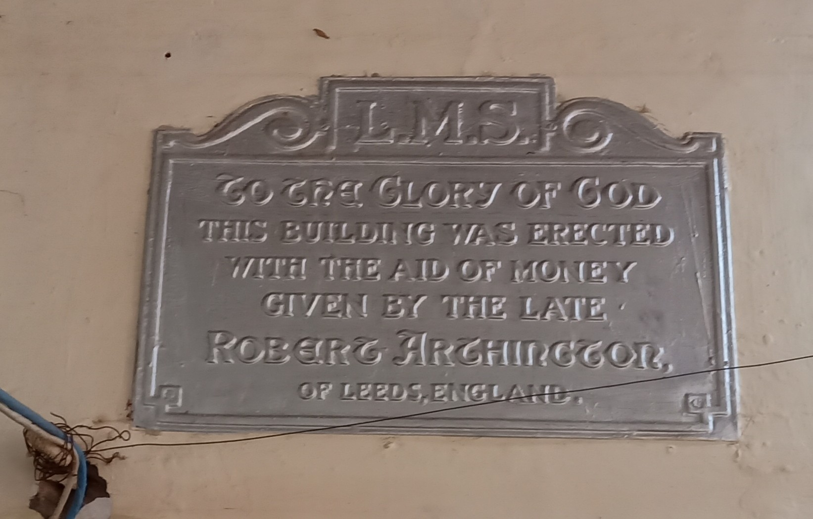 Ralph Wardlaw Thompson Memorial Hospital, Chikkaballapur